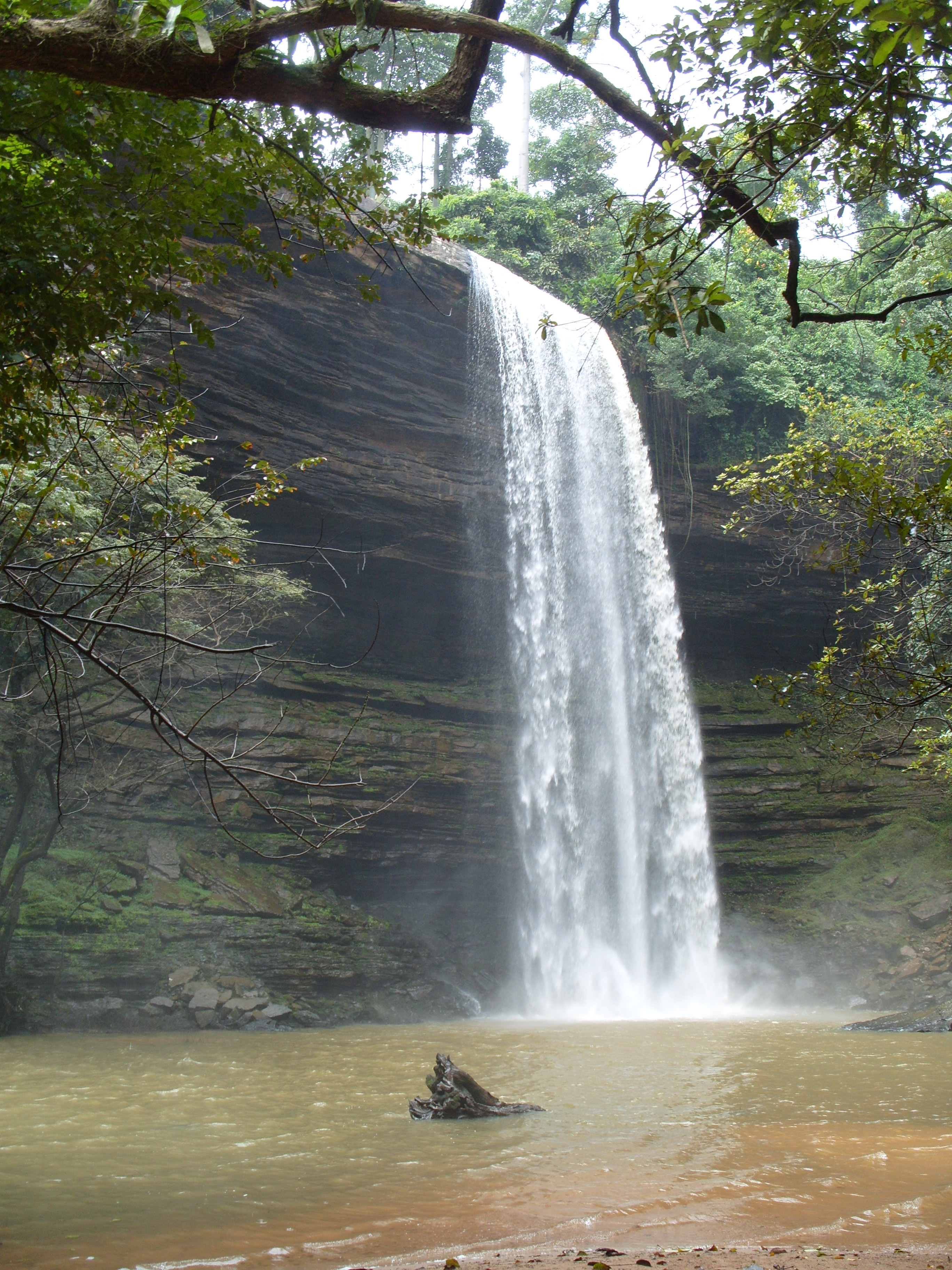 One of the waterfalls of the Boti falls near Koforidua, Ghana